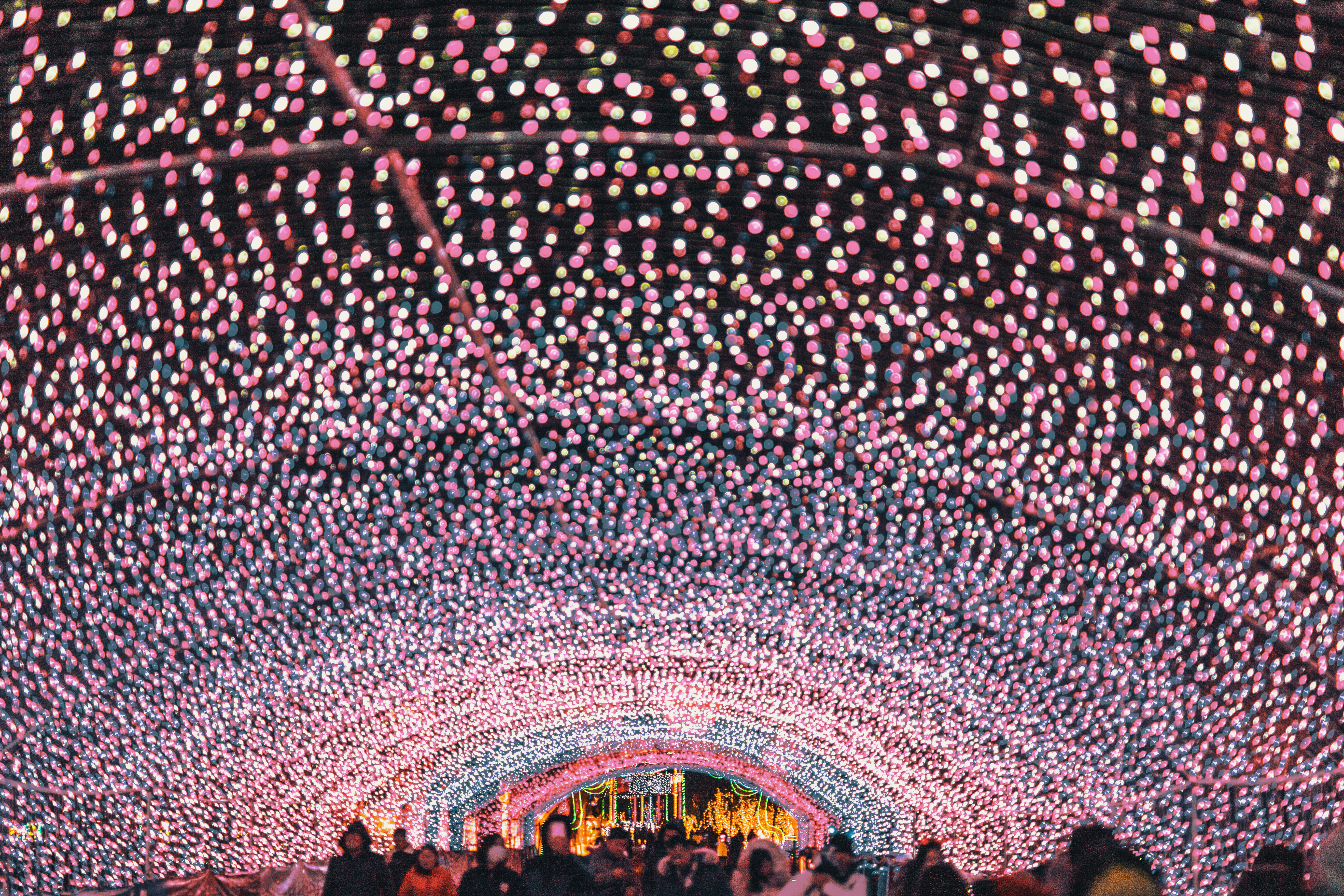 Photo from the light festival in January